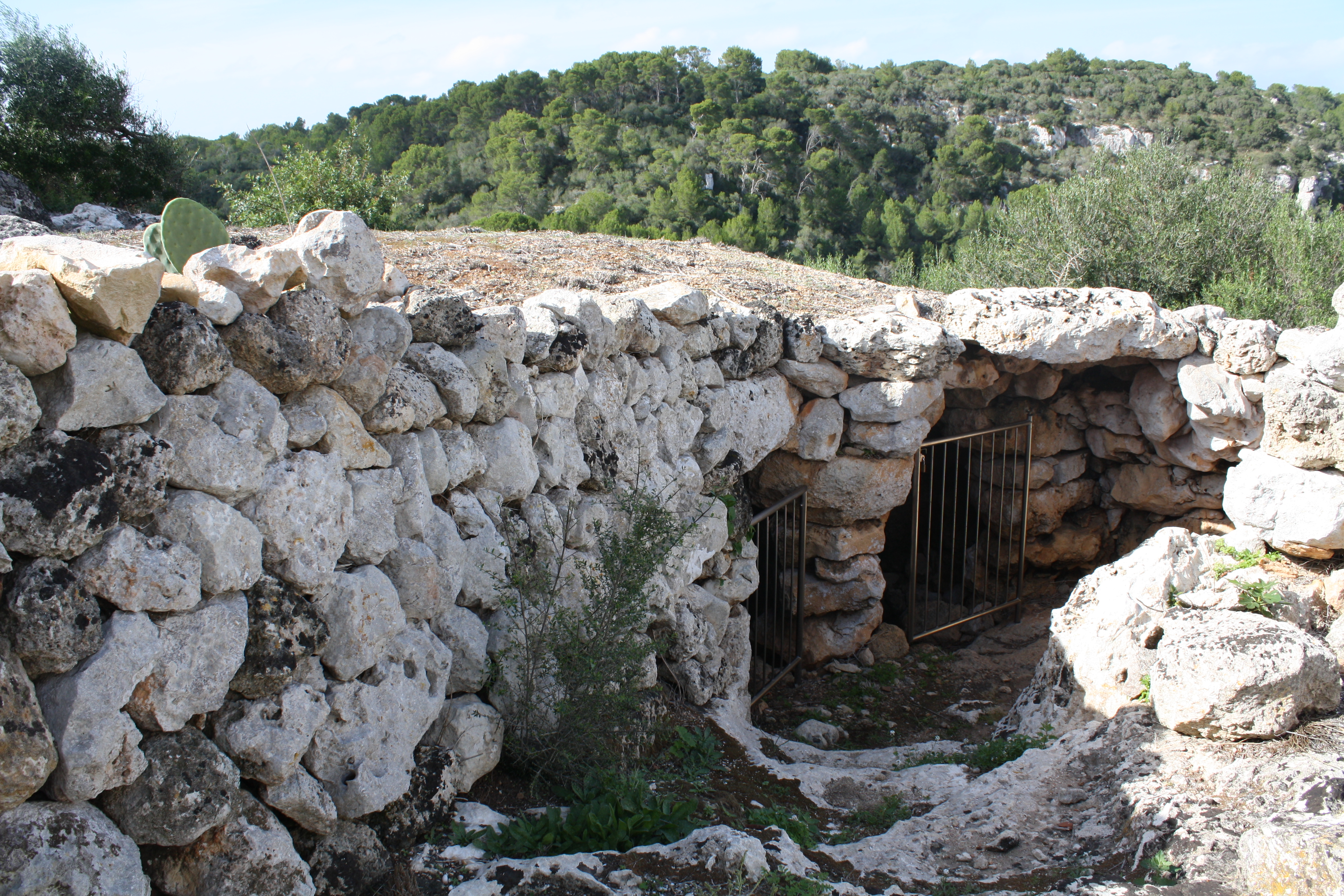 Present entrance to the Galliner de Madona hypostyle hall, Es Migjorn Gran, Minorca.